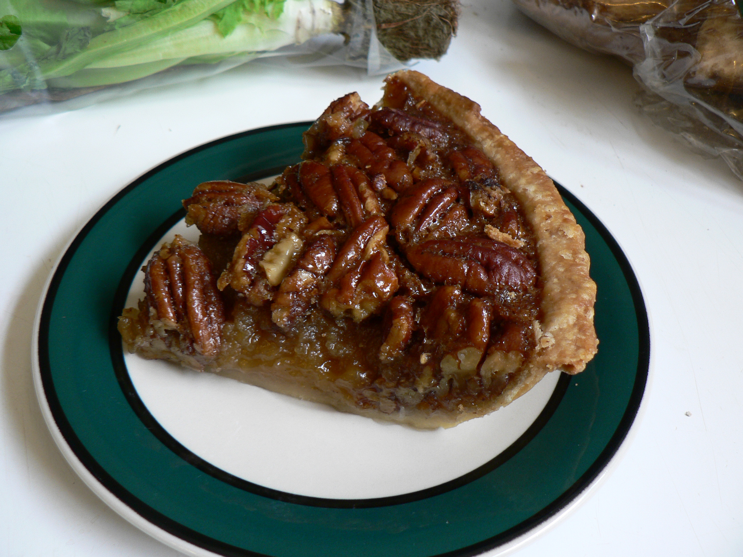 A slice of pecan pie.